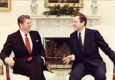 President Ronald Reagan was a close friend to Senator Hatch since the beginning of their national political careers. Reagan endorsed Hatch in his first bid for the United States Senate in 1976, and Hatch traveled the country in 1980 to secure Reagan's nomination for President.